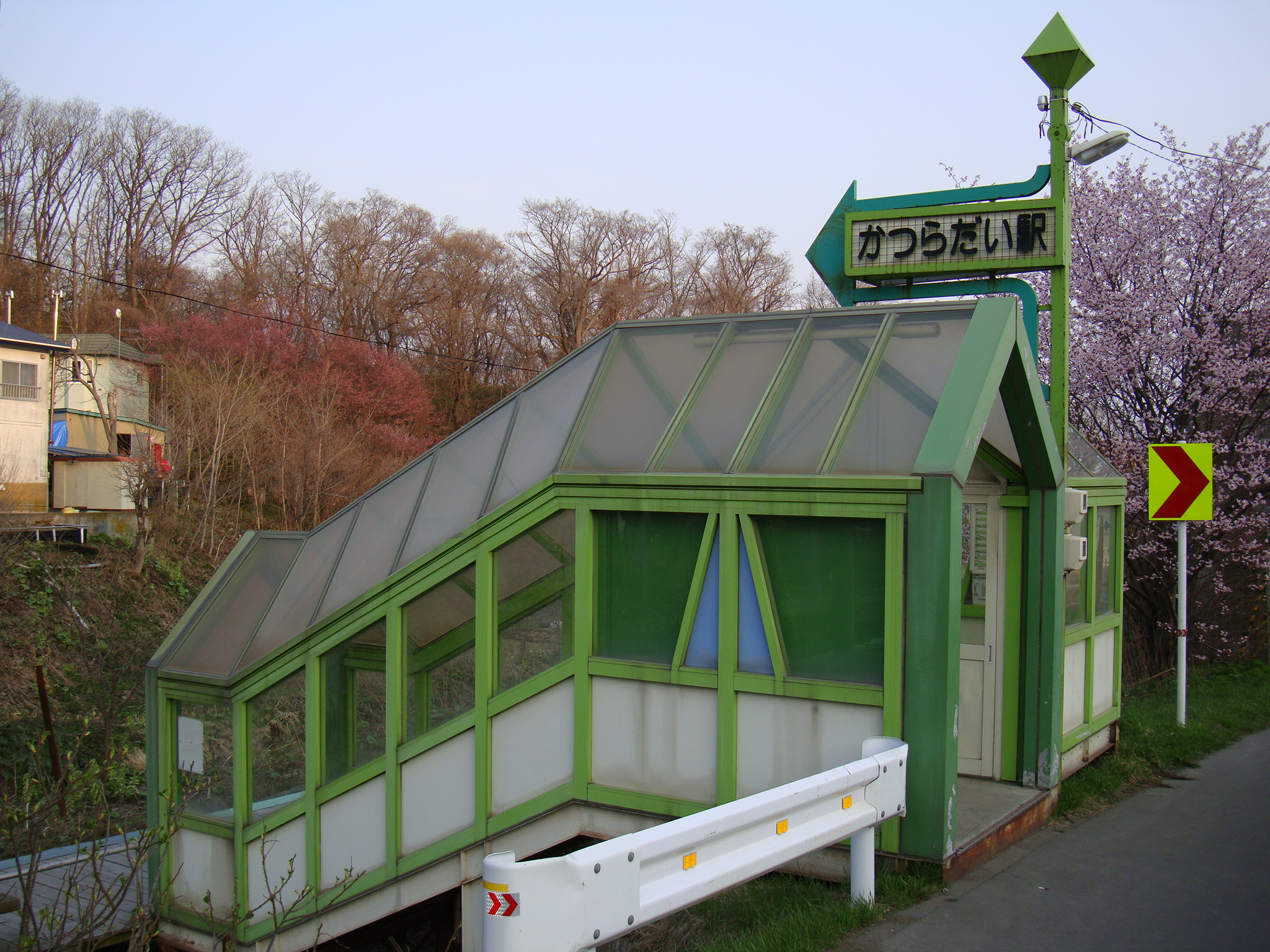 Katsuradai Station